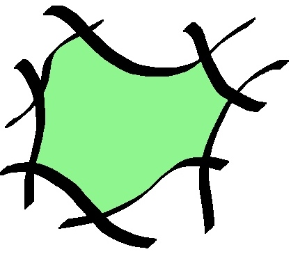 A sketch of an analytic polyhedron showing the principles for obtaining the domain from the defining functions.